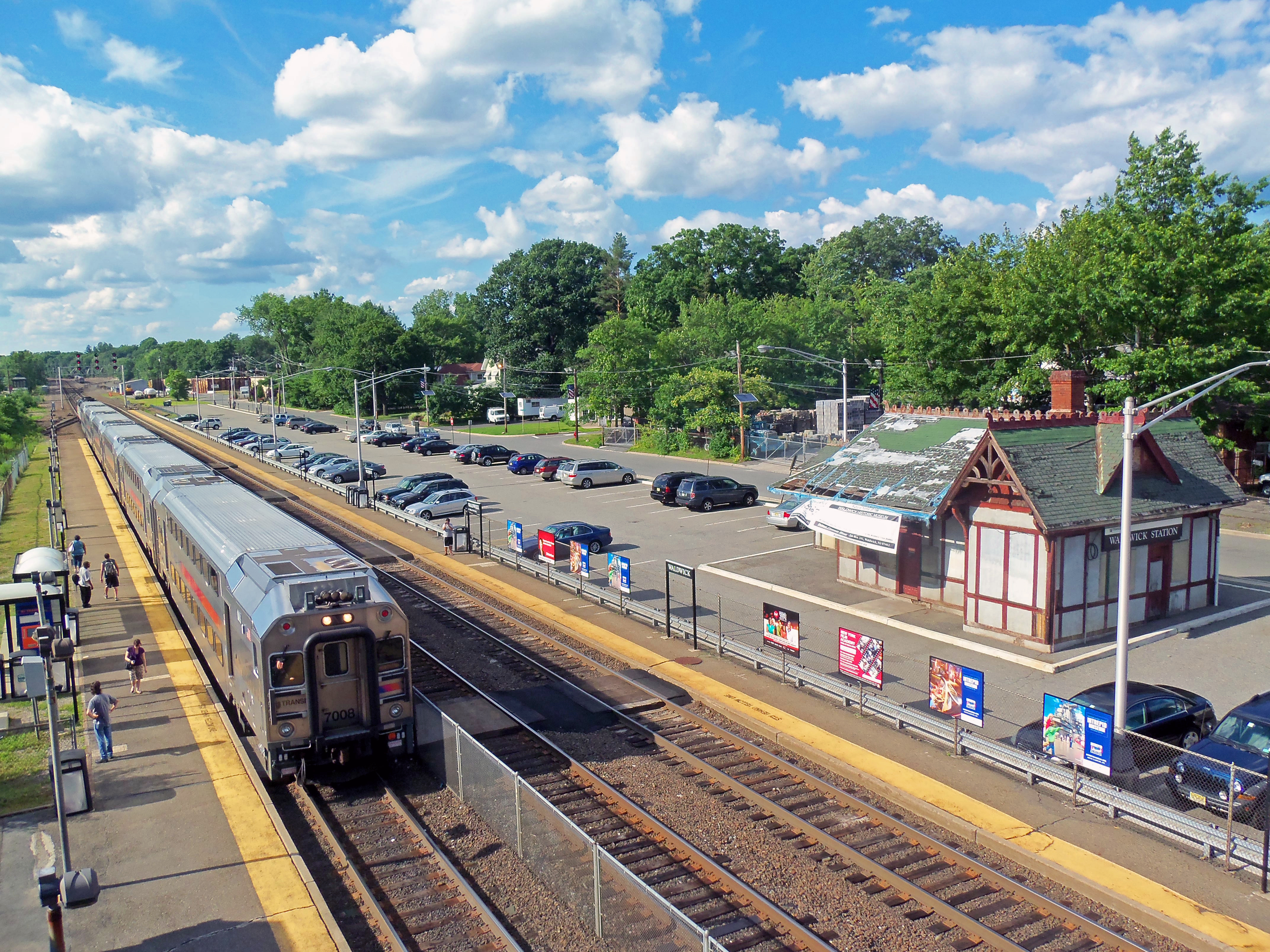 NJ Transit train bound for Hoboken Terminal seen in northward view from pedestrian bridge at Waldwick station